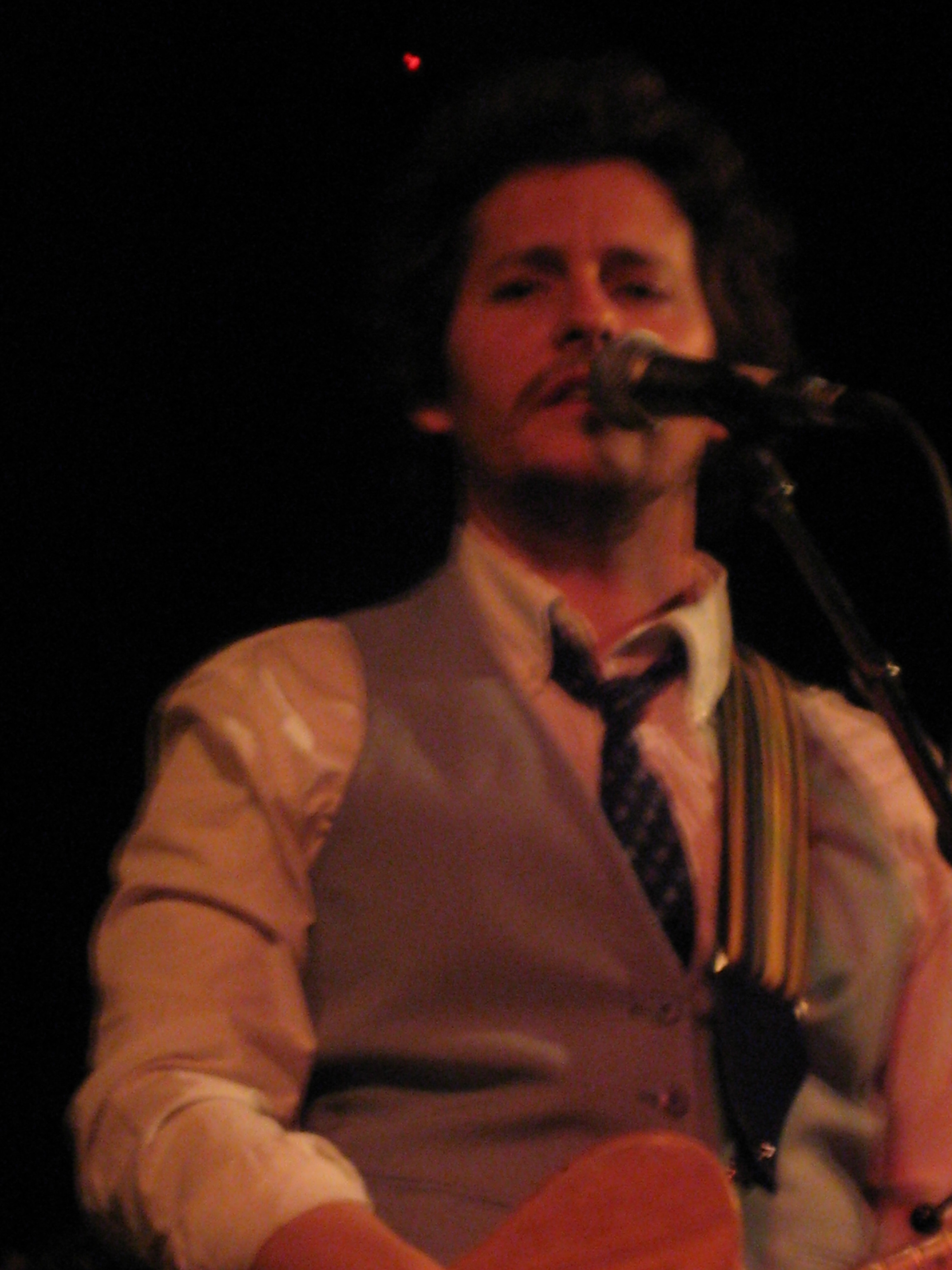 Josh Rouse in concert at Lee's Palace in Toronto